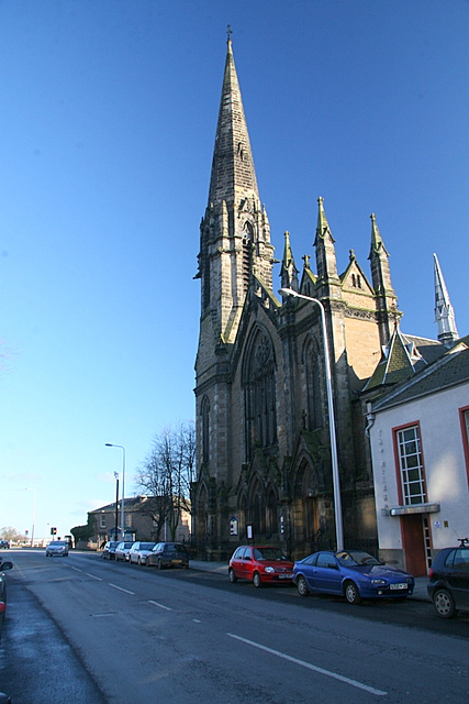 St. John's Church, Dundee Opened in 1884 and designed by James Hutton.